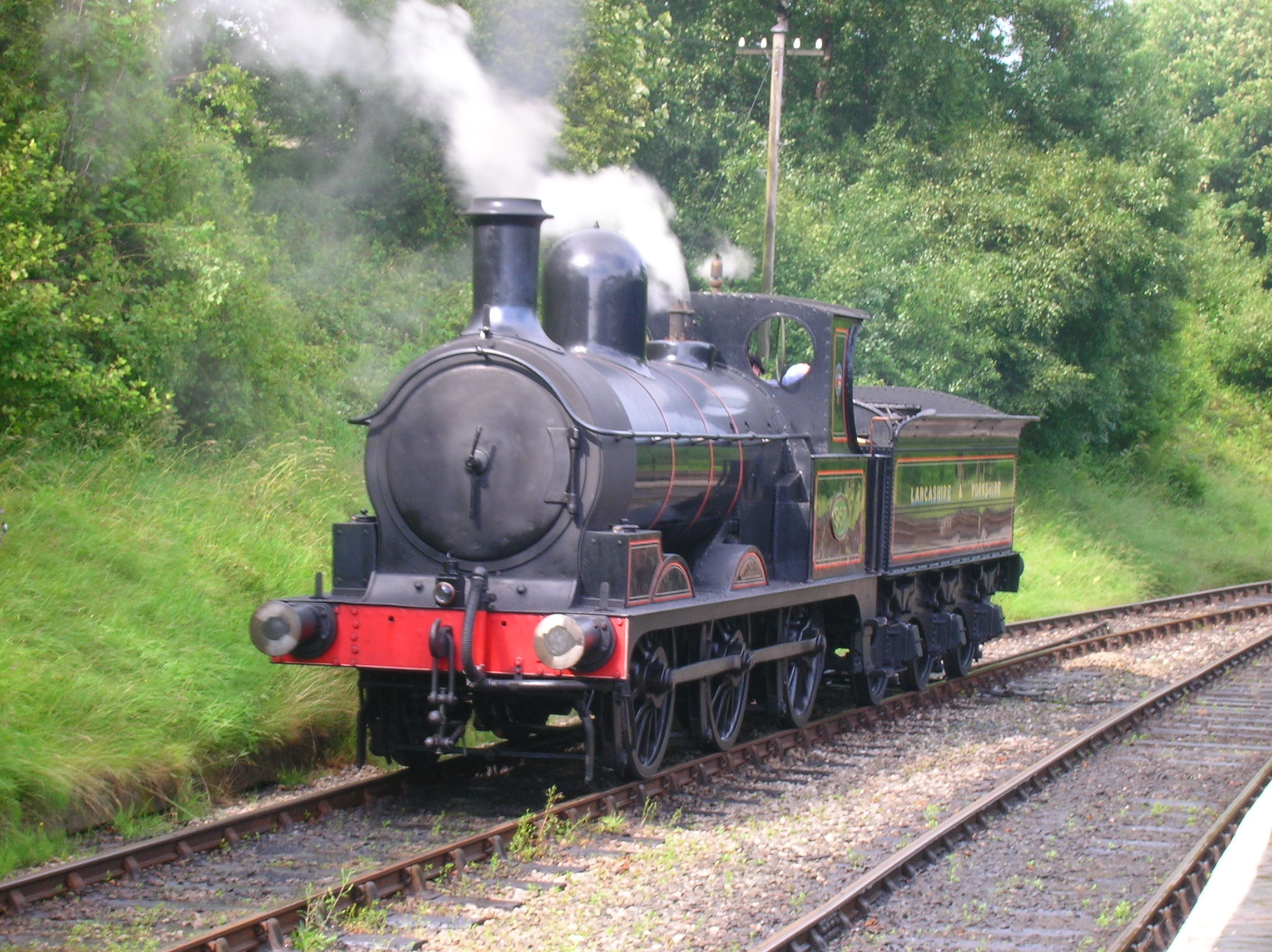 Big Sis's Birthday treat